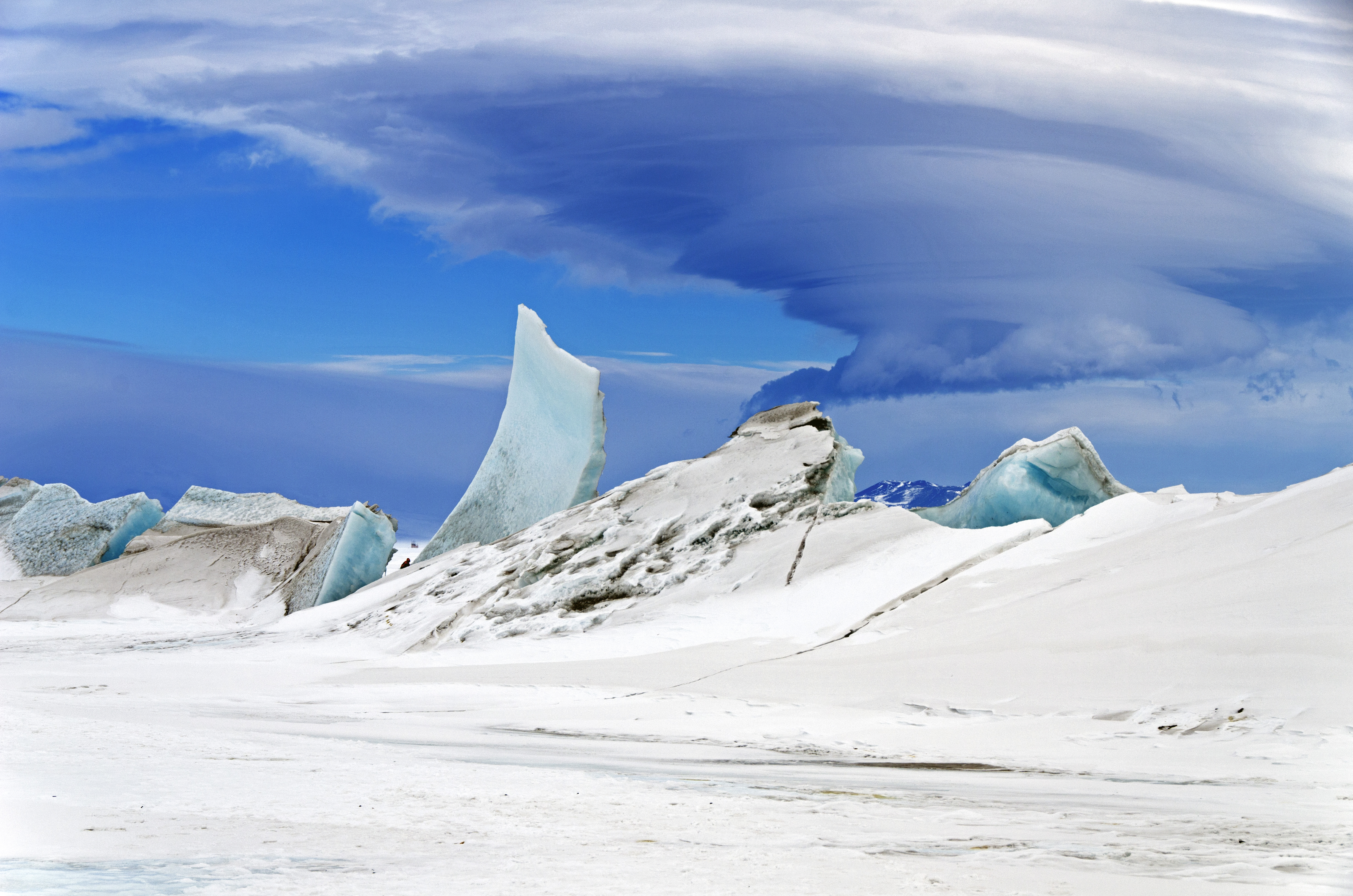 A pressure ridge in the Antarctic ice near Scott Base, with lenticular clouds in the sky. Lenticular clouds are a type of wave cloud. They usually form when a layer of air near the surface encounters a topographic barrier, gets pushed upward, and flows over it as a series of atmospheric gravity waves. Lenticular clouds form at the crest of the waves, where the air is coolest and water vapor is most likely to condense into cloud droplets. The bulging sea ice in the foreground is a pressure ridge, which formed when separate ice floes collided and piled up on each other.